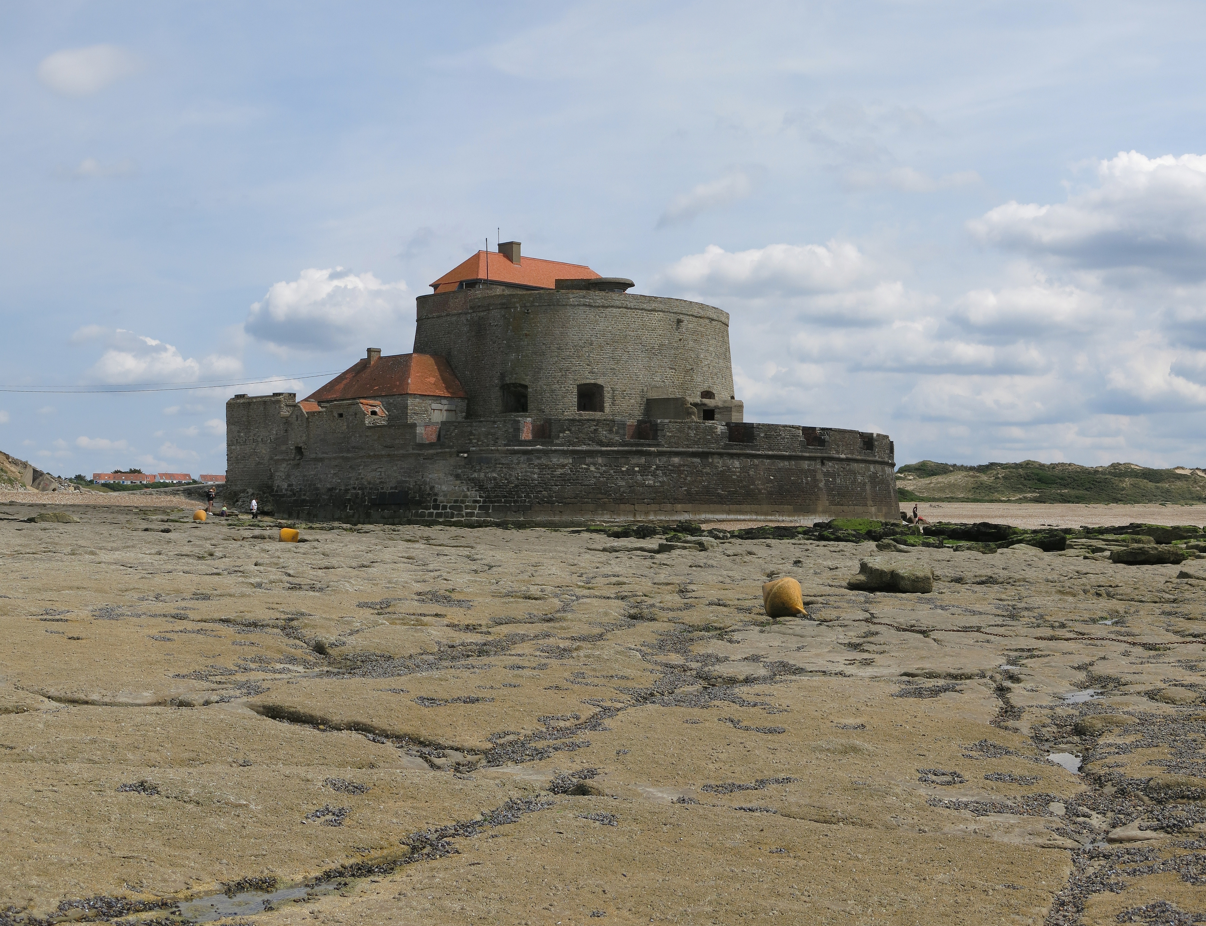 Fort Mahon in Ambleteuse